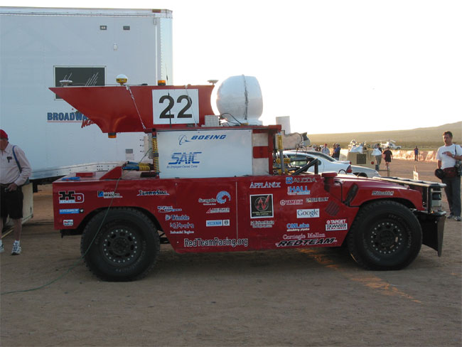 From the DARPA Grand Challenge, Red Team Racing's Hummer - Picture by Rupert Scammell and released under a Creative Commons License (Attribution-ShareAlike 1.0)